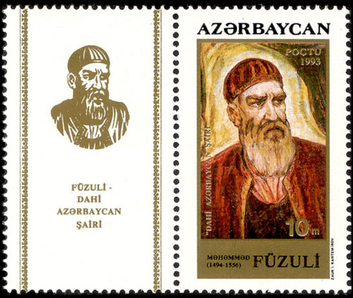 A printing on chalk-overlay paper with glue. Perforation: 2.0. Size of the stamp: 33x50 mm. Multicolored. N 209 - 10 m. A portrait of Muhammed Fizuli, the great Azerbaijan poet. Stamps are printed as a kind of miniature sheet with coupons. There are 8 stamps and 10 coupons in the sheet. There are a text "Fizuli is a great Azerbaijan poet" in Azerbaijan, Arabic, English, German, Russian Languages on the coupons. The stamp sheets have 2 types on arrangement of the coupons. Stamps are in 2, 5, 7, 9, 10, 12, 14, 17 places. Coupons are in 1, 3, 4, 6, 8, 11, 13, 15, 16, 18 places. Circulation: 20000 sheets.